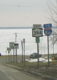 New York State Route 394 passing by the northern end of Chautauqua Lake